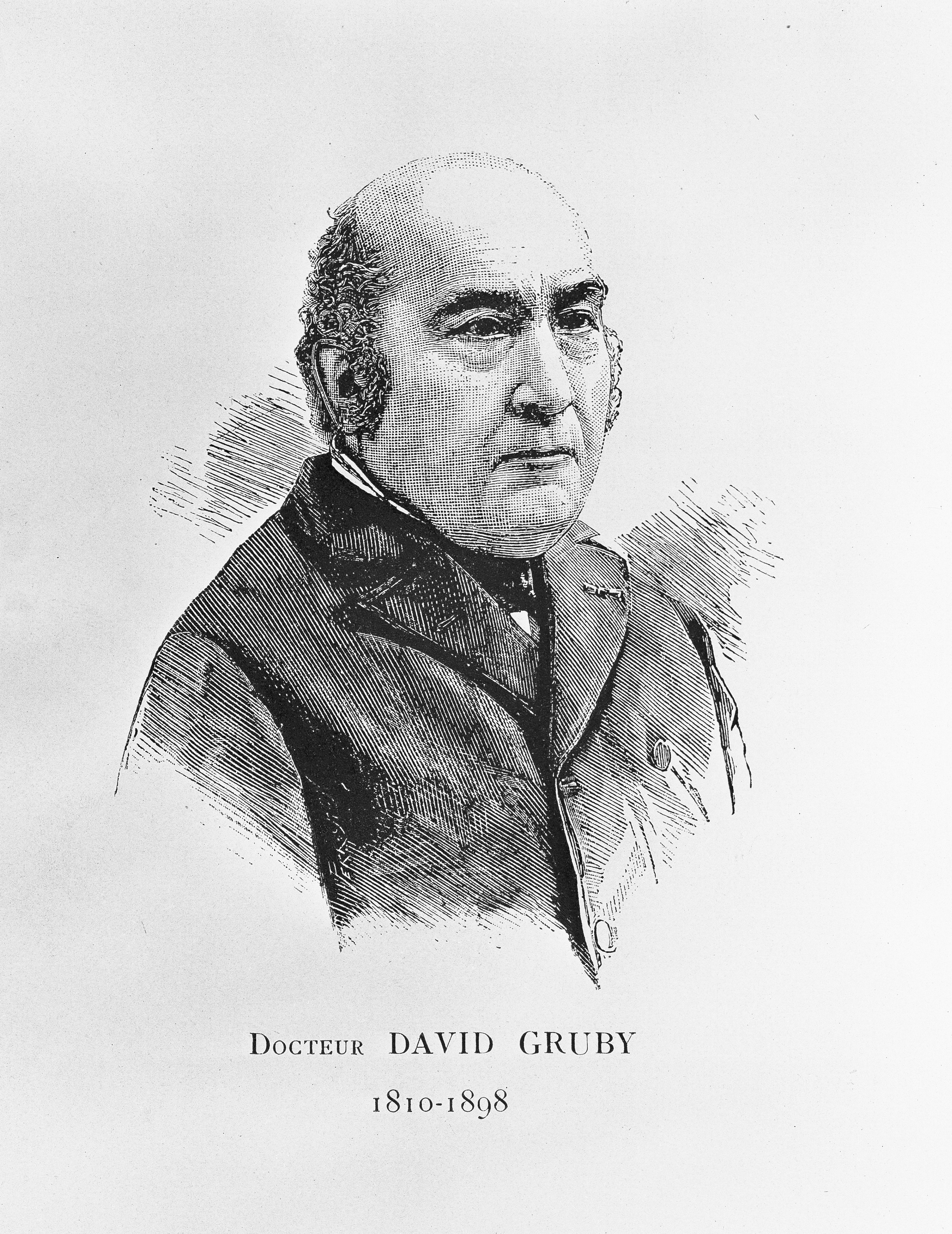 Portrait of David Gruby. General Collections Keywords: David Gruby